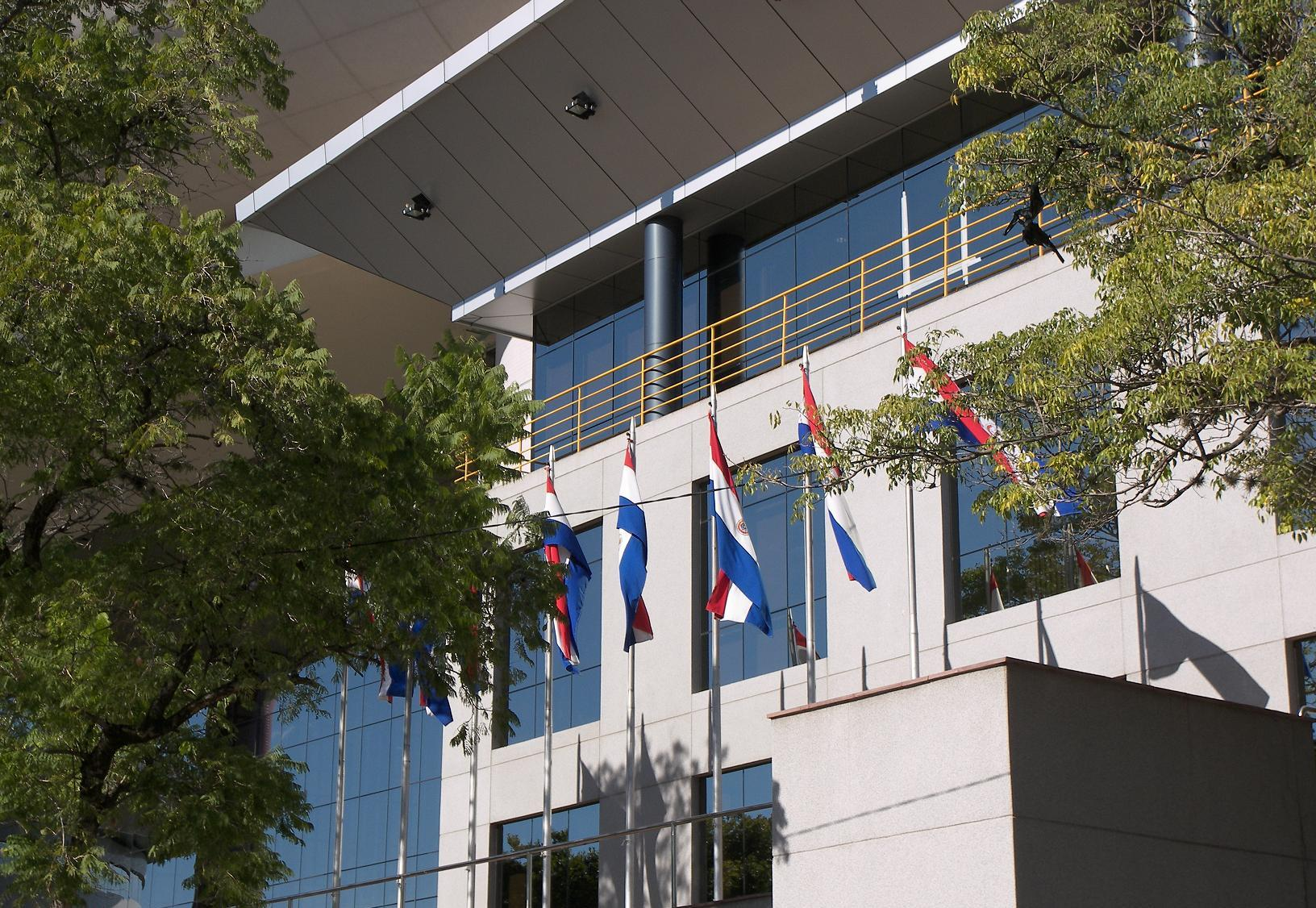 Congreso Nacional del Paraguay en el centro de Asunción.